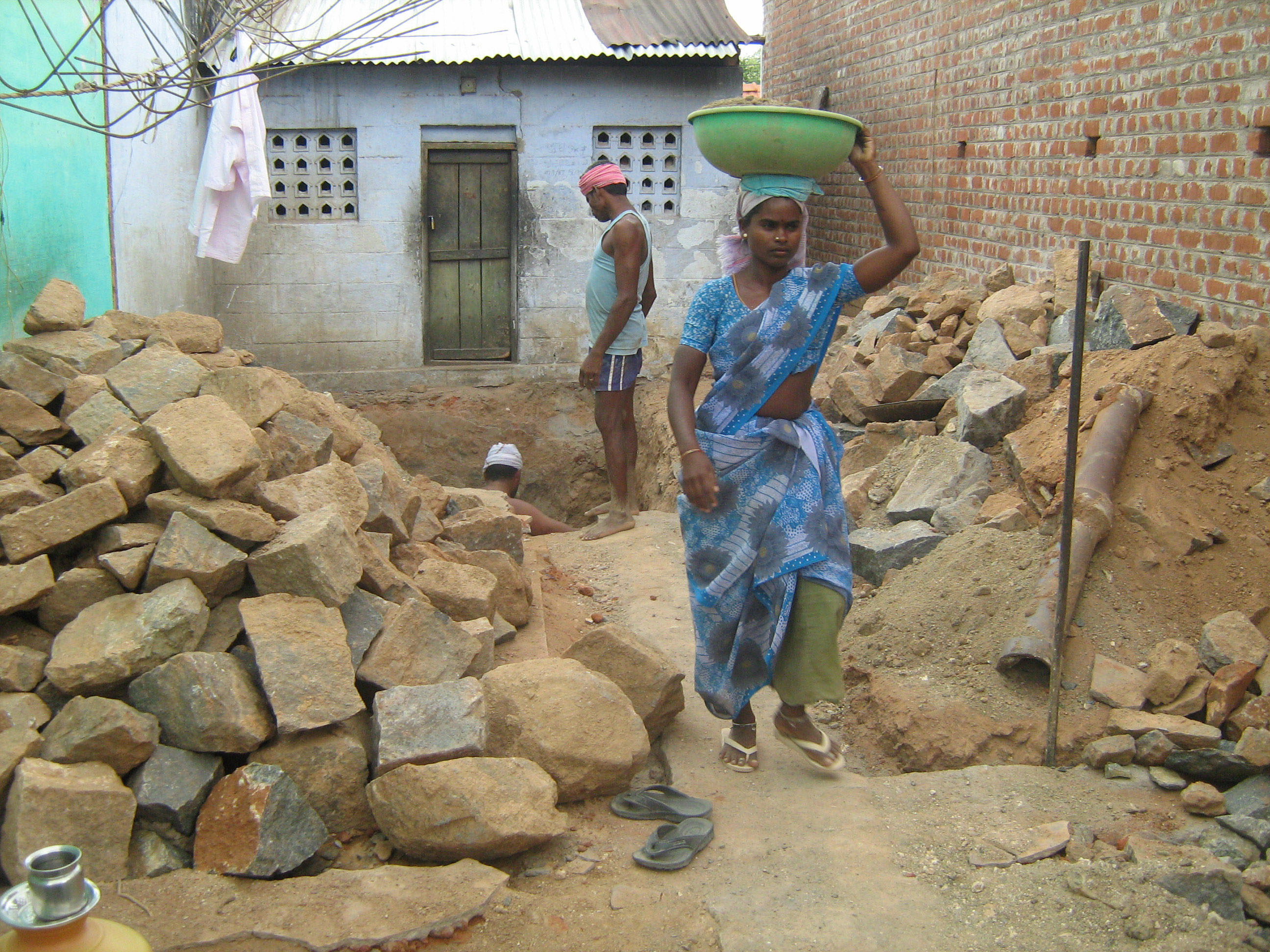 construction labors,salem district, Tamil Nadu,India